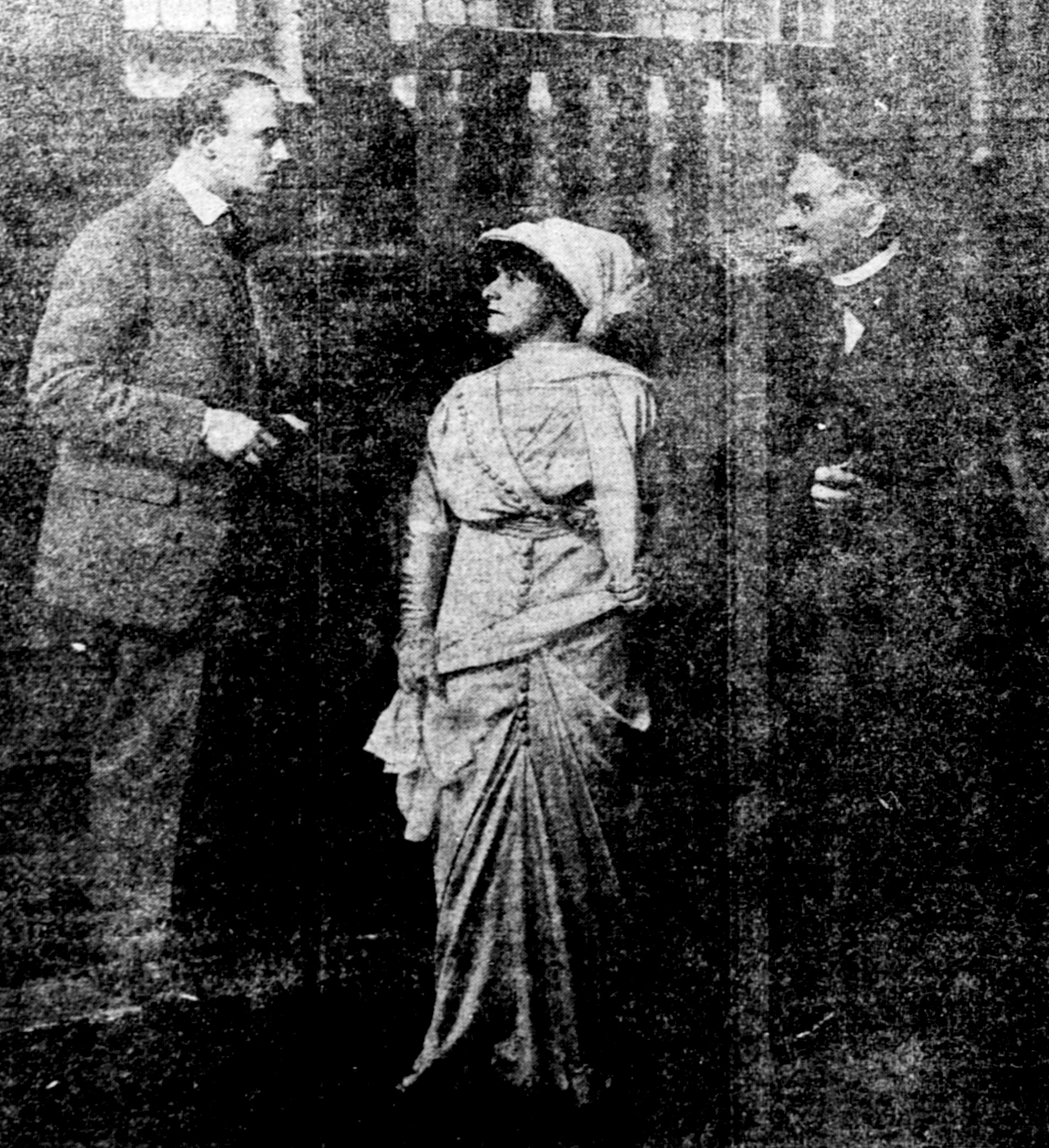 The Ghost Breaker was a 1914 American silent drama film directed by Cecil B. DeMille and Oscar C. Apfel and based on the Broadway play of the same name by Paul Dickey and Charles W. Goddard. This is a scene from the film published in a newspaper.